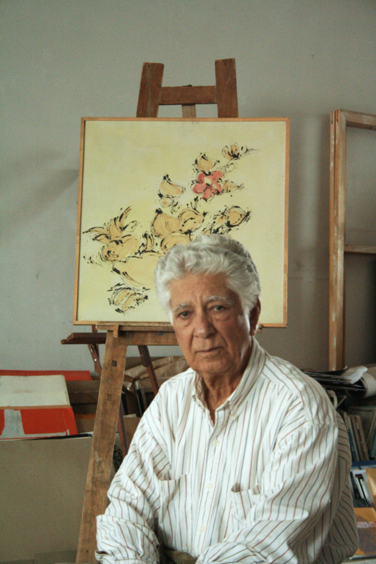 Graphic designer - Painter